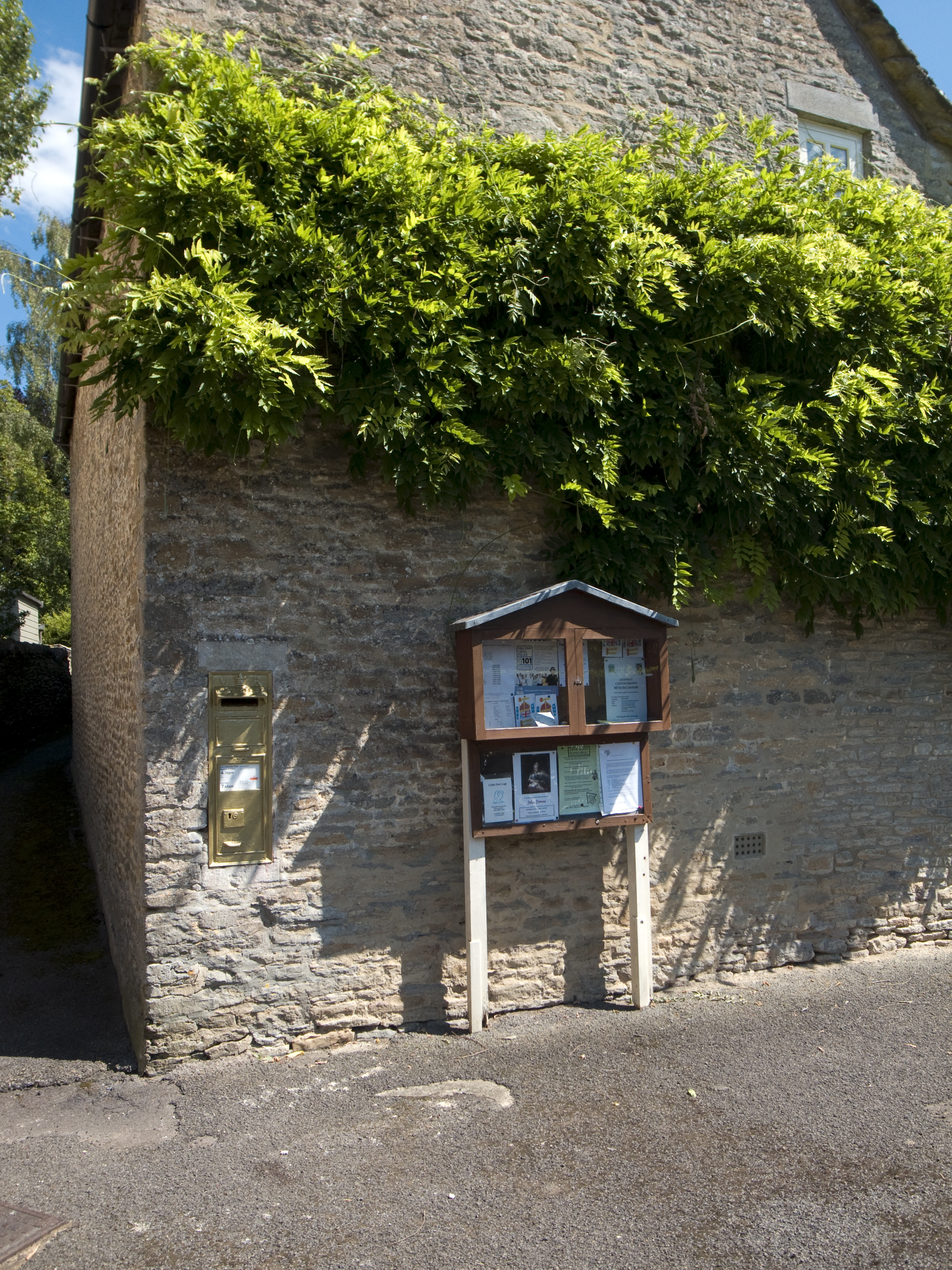 Post box painted gold to celebrate Laura Bechtolsheimer's equestrian team dressage gold medal at the 2012 Summer Olympics, Ampney St Peter, England. Ricoh GR Digital IV